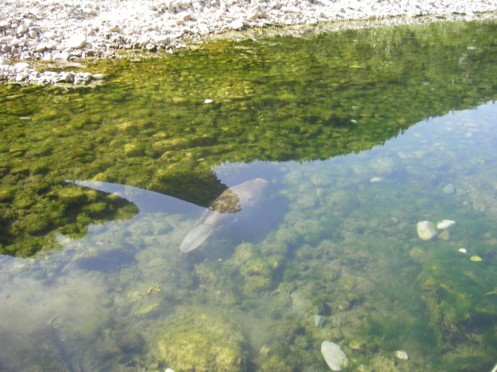 an beaver in the Tarn river near St.Chély-du-Tarn (commune Sainte-Enimie)